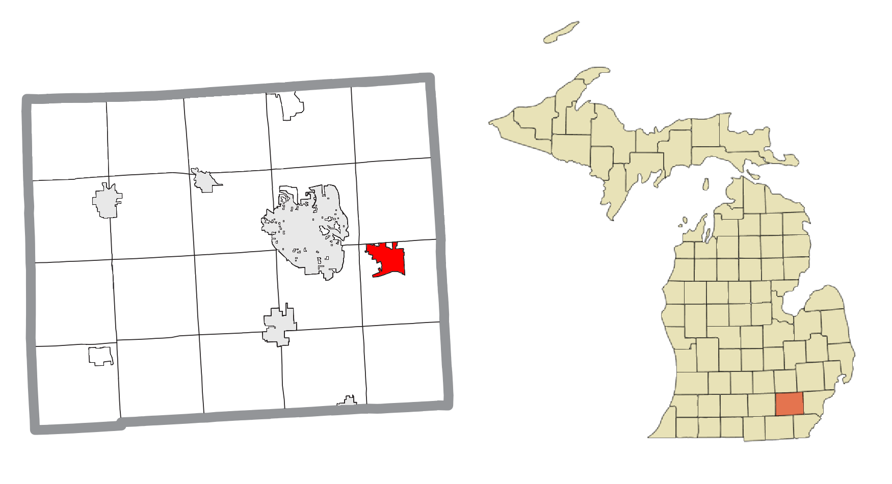 Ypsilanti, MI